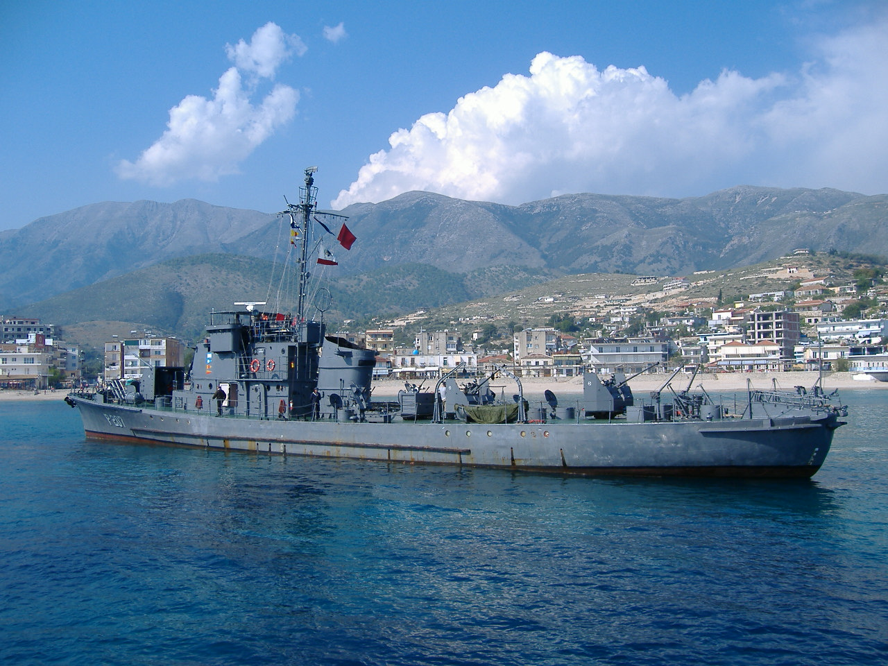 Project 122bis, a Soviet made sub-hunter patrol craft, known by with NATO designation as Kronshtadt class, sole one still in use with the Albanian Navy Brigade.